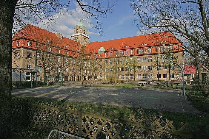 arndt-gymnasium dahlem